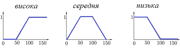 Функції приналежності термів лінгвістичної змінної «Температура»